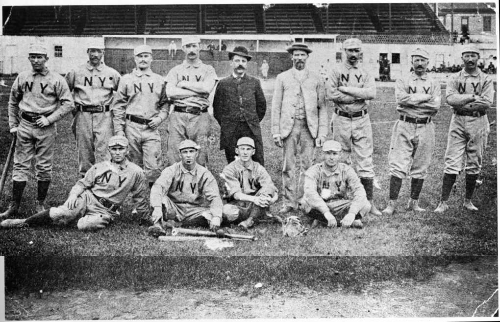 A photo of the 1884 New York Gothams baseball team, known today as the San Francisco Giants.